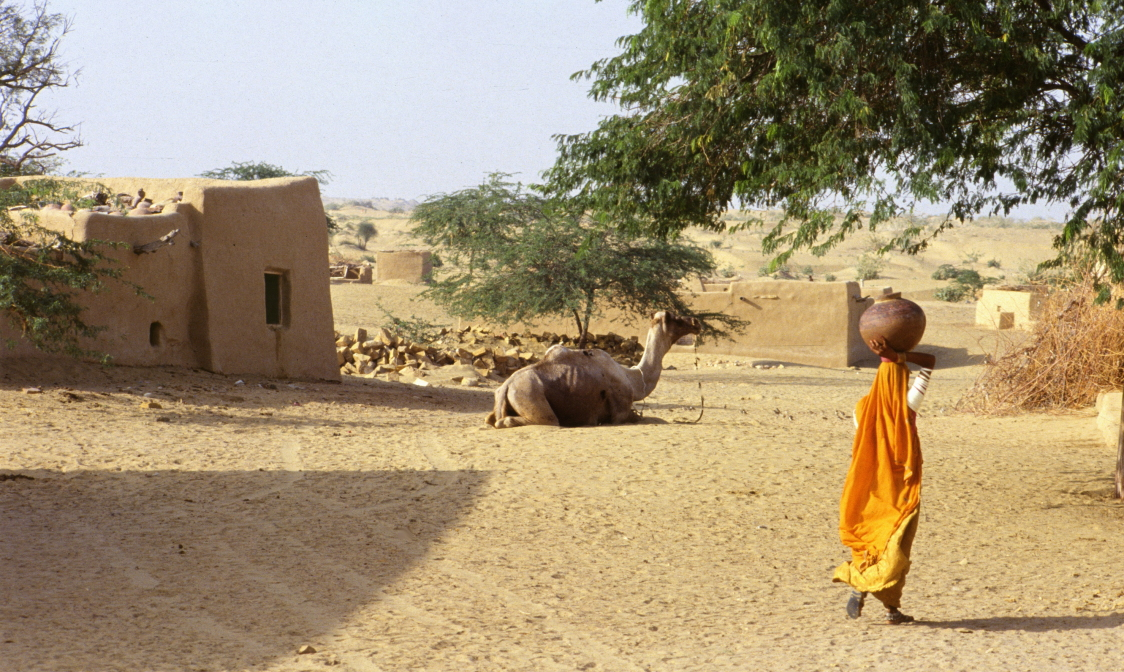 Guri village, in Rajasthan, India.